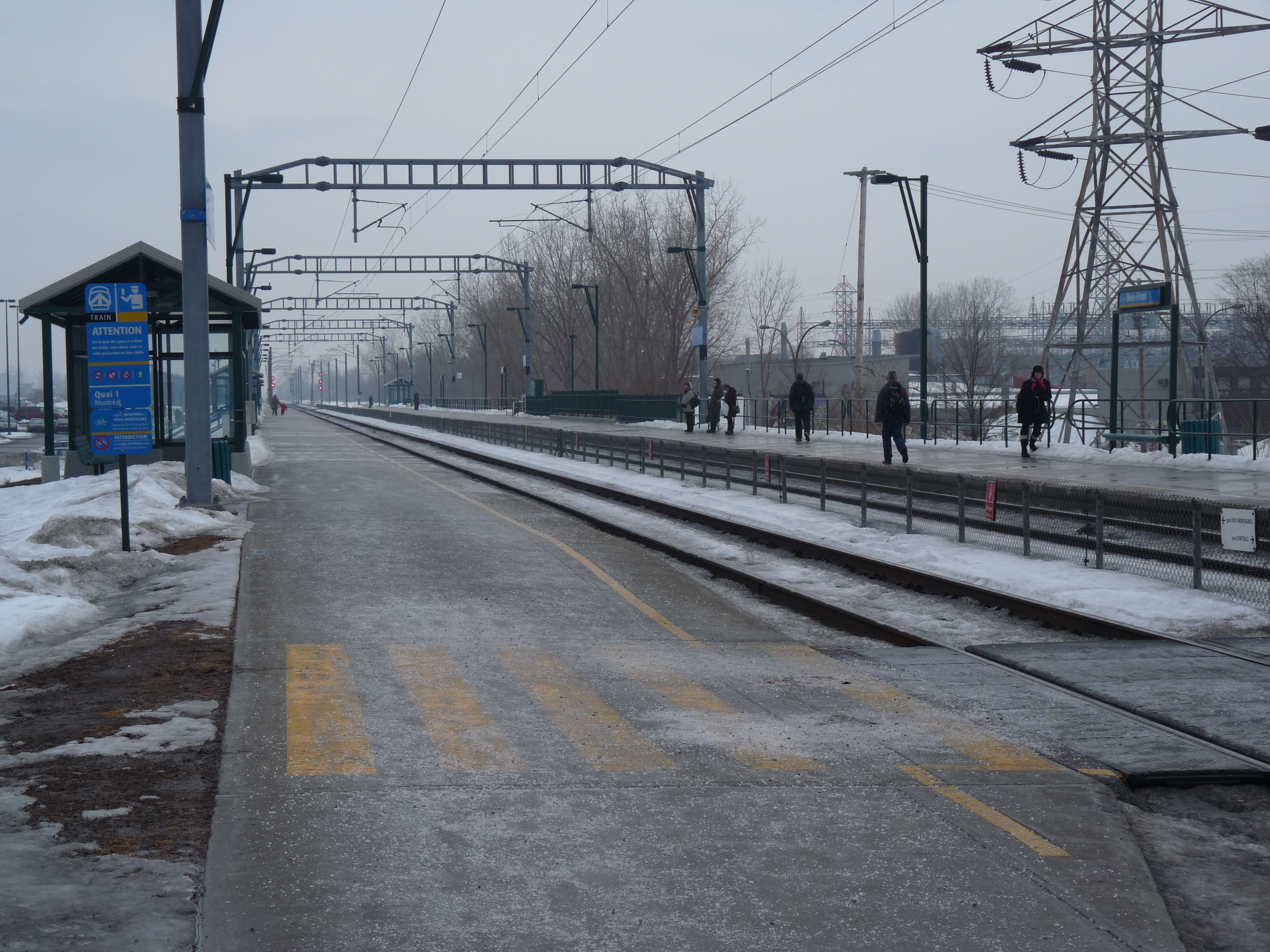 View of the Bois-Francs suburb train station in Saint-Laurent burrough of Montreal, Canada. It part of the Montreal-Deux-Montagnes train line of the AMT.